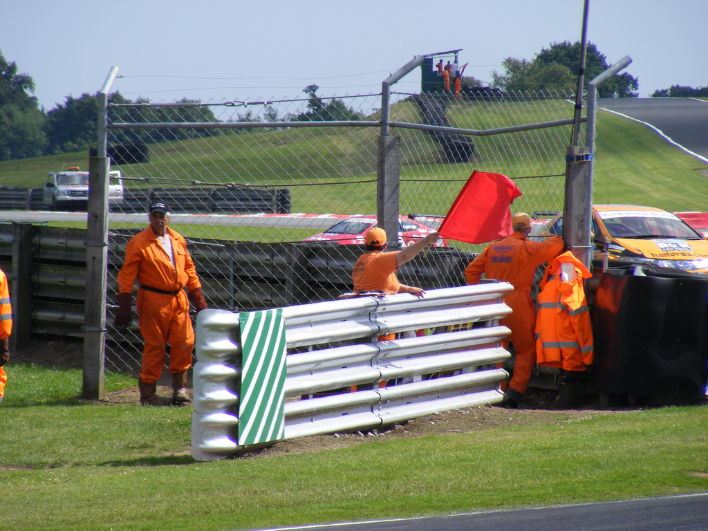 A track worker waves a red flag at Oulton Park in 2008.